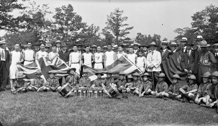 Canadians of Chinese descent in High Park, Toronto. (Boy Scouts?)